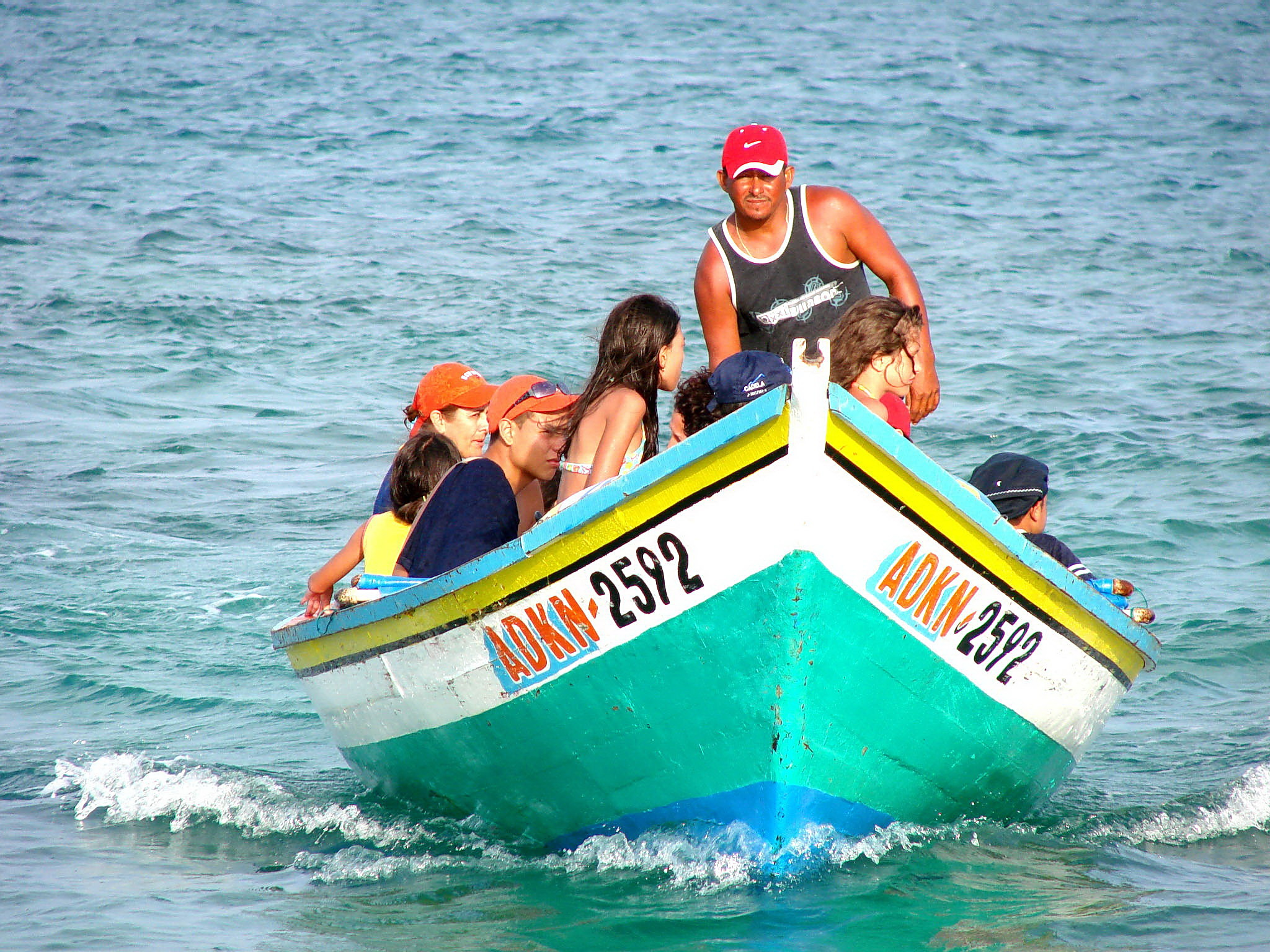 A group of people riding a wooden boat off a beach in Venezuela.